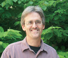 picture of tyson